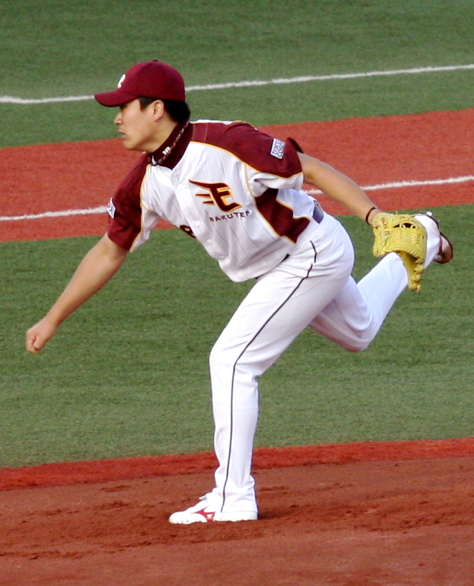 Masahiro Tanaka finishes his delivery.